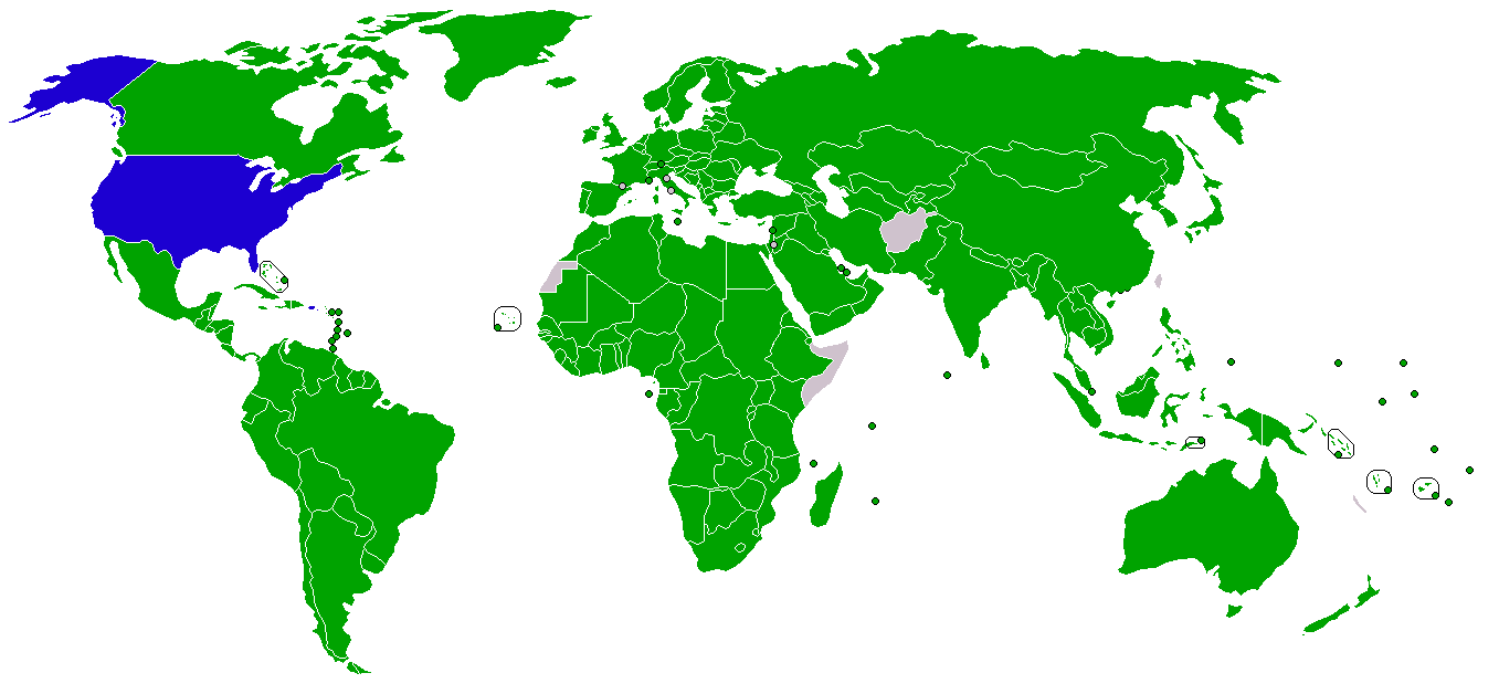 See below.